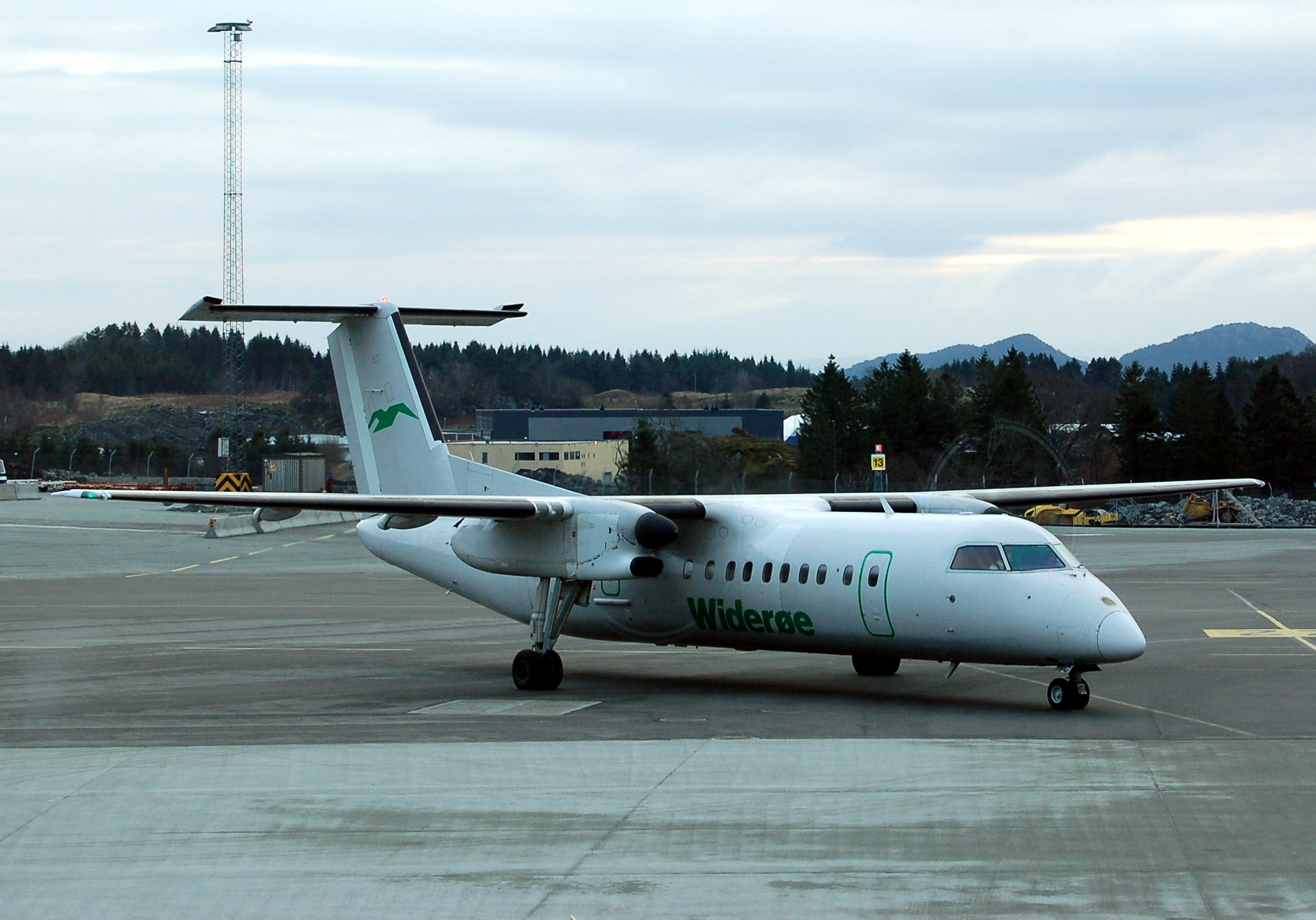 Widerøe de Havilland Canada DHC-8-311 Dash 8 LN-WFC at Bergen Airport, Flesland